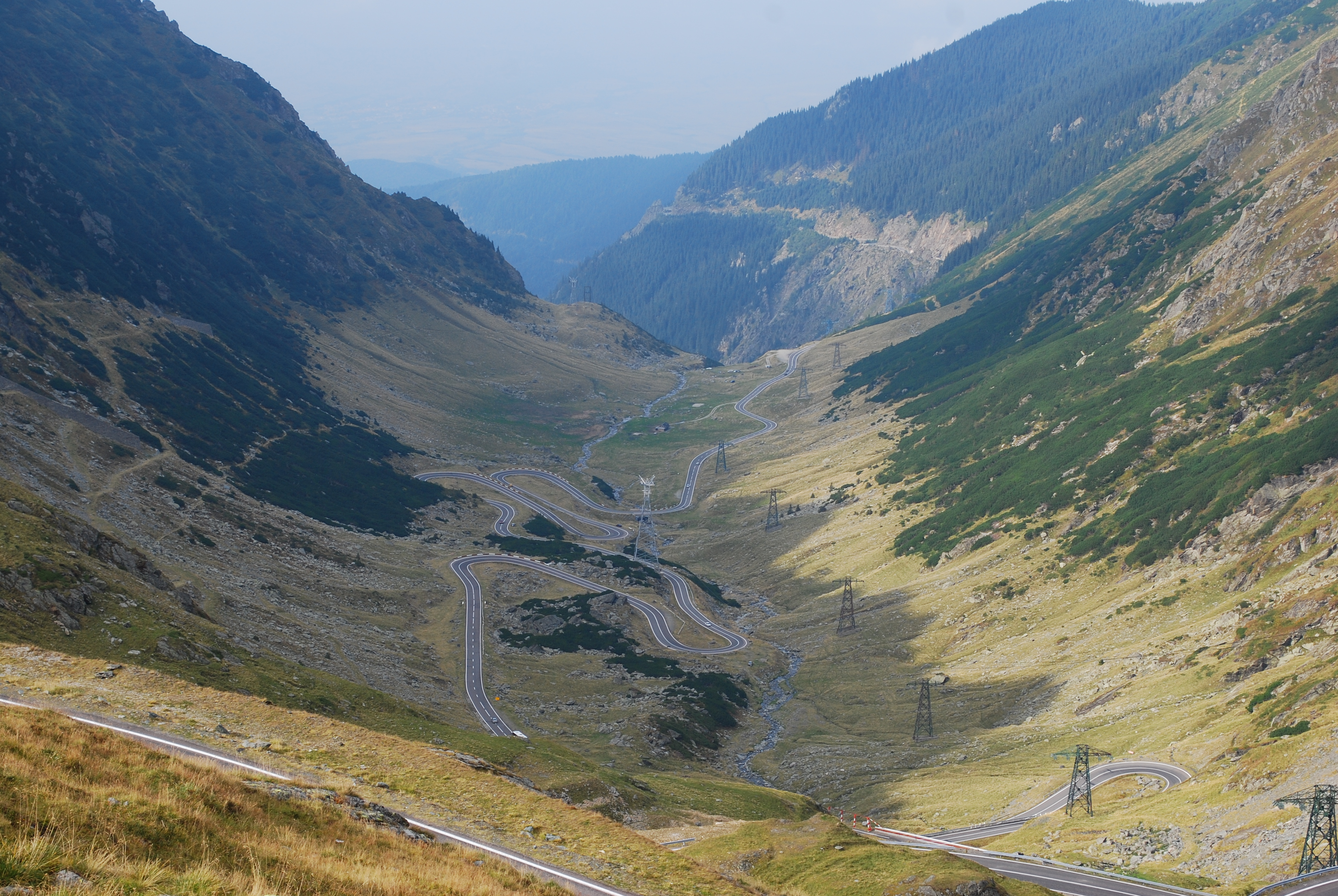 Transfăgărăşan road view from Lake Bâlea towards the north slope.